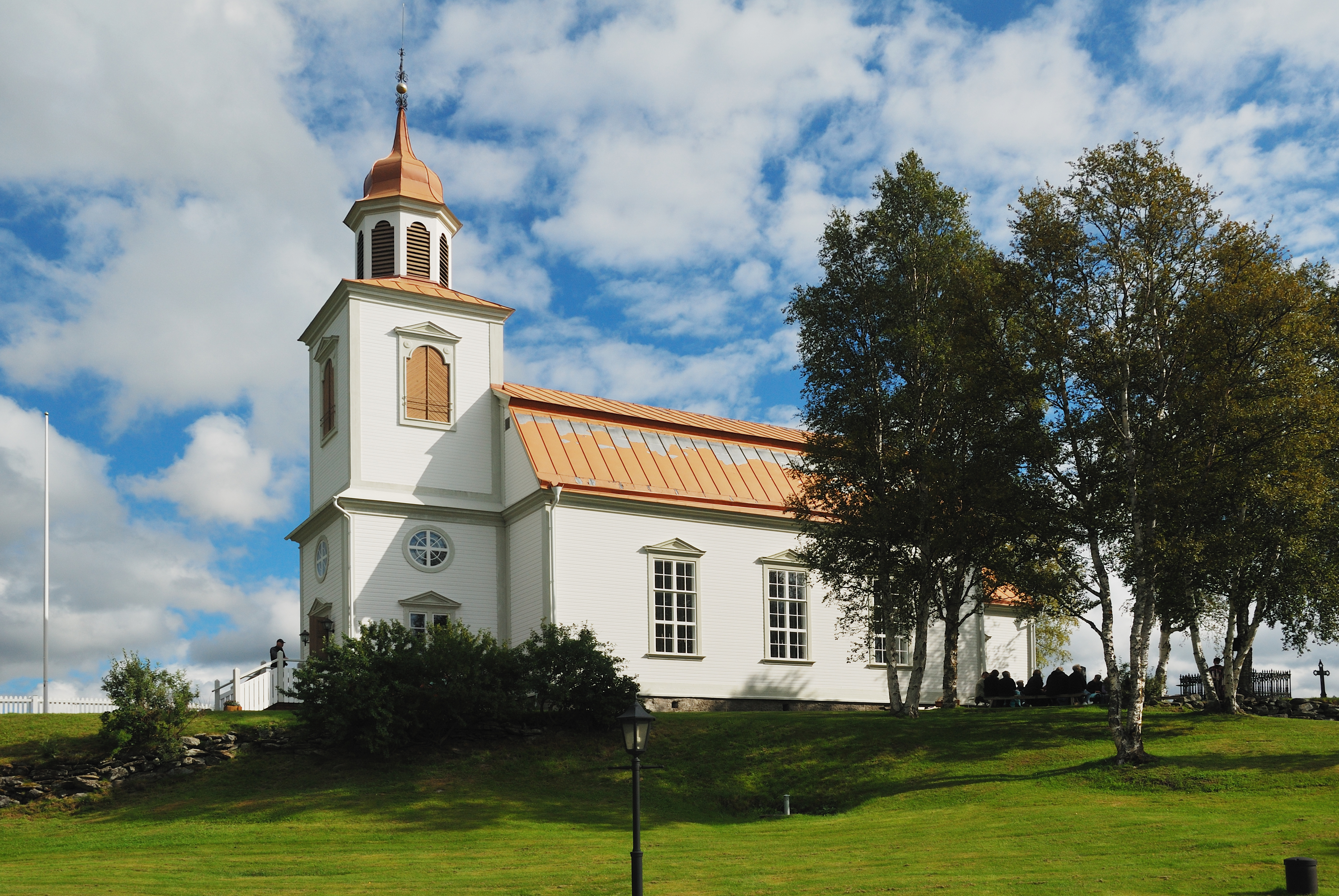 Ljusnedals kyrka (churche).